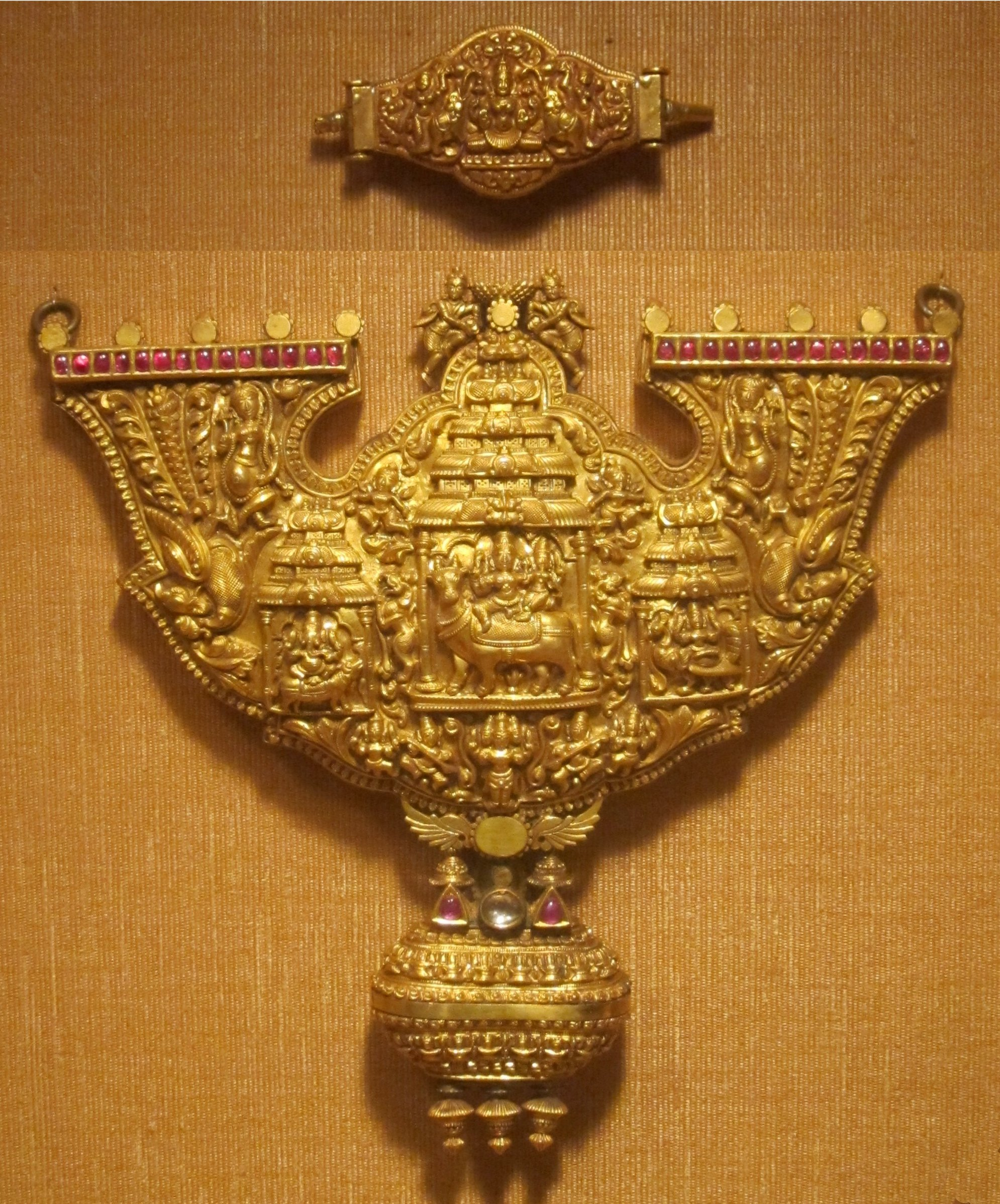 Two-part pectoral, Tamil Nadu, India, 19th century, gold, rubies and diamonds, Honolulu Academy of Arts